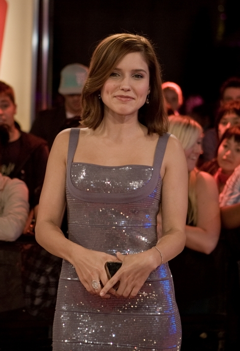 Sophia Bush at the eTalk Festival Party, during the Toronto International Film Festival.